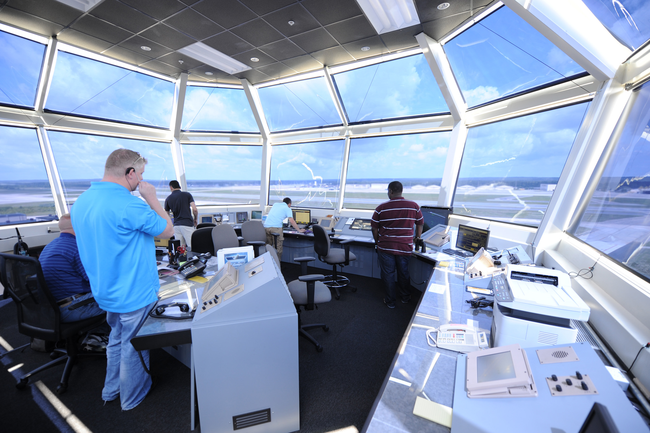 Air traffic controllers direct air and ground operations atop the new air traffic control tower June 11, 2013, at Pope Field, N.C. The new tower is Leadership in Energy and Environmental Design, or LEED, certified, stands 11-stories tall and boasts more than 9,000 square feet of internal space. (U.S. Air Force illustration/Tech. Sgt. Peter R. Miller)